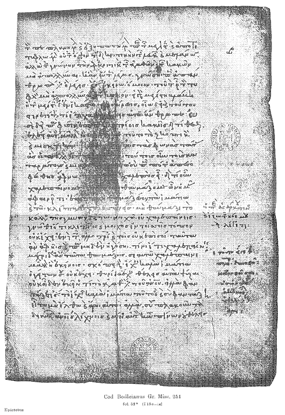 Codex Bodleianus (Cod. graec. Misc. 251, Auct. T. 4. 13), Bodleian Library, c. 11th or 12th century. The Discourses of Epictetus. The large stain on the manuscript on this page (Book 1. 18. 8-11) has made this passage partially illegible. Photo is from Contributions to a Bibliography of Epictetus, by W. A. Oldfather. University of Illinois, 1927. Greyscale version of the original monochrome image.